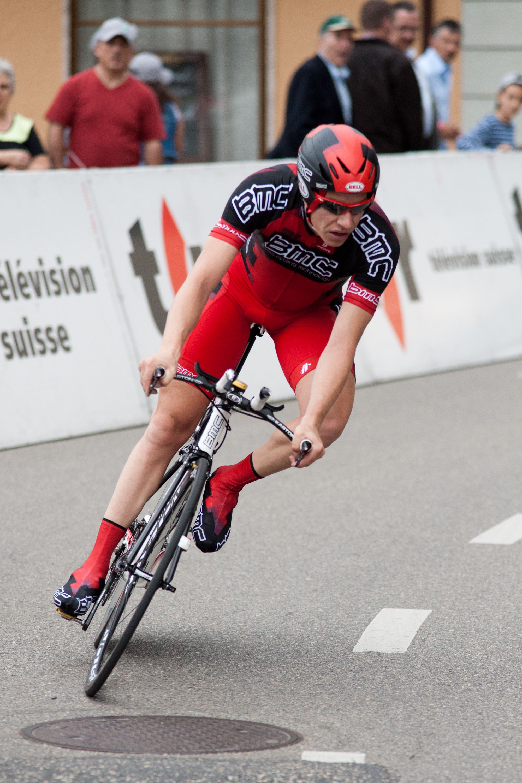 Jeffry Louder during the 3rd stage of the Tour de Romandie 2010.